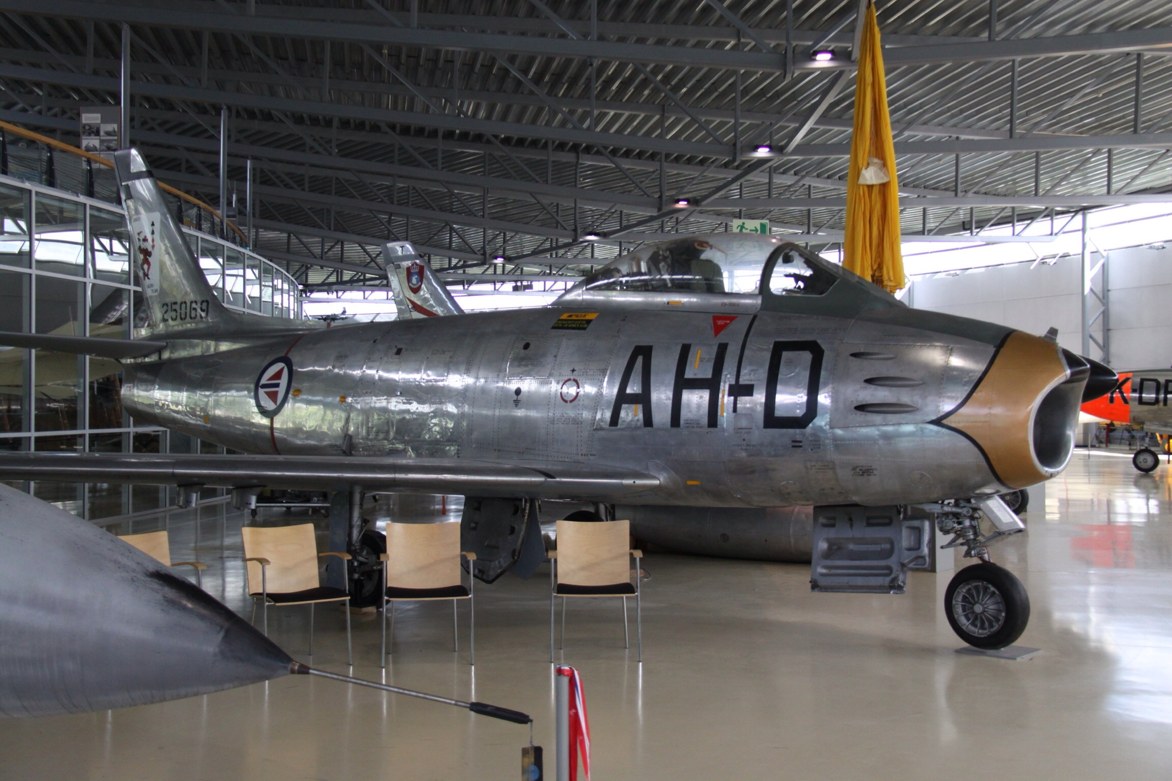 At Oslo Gardermoen